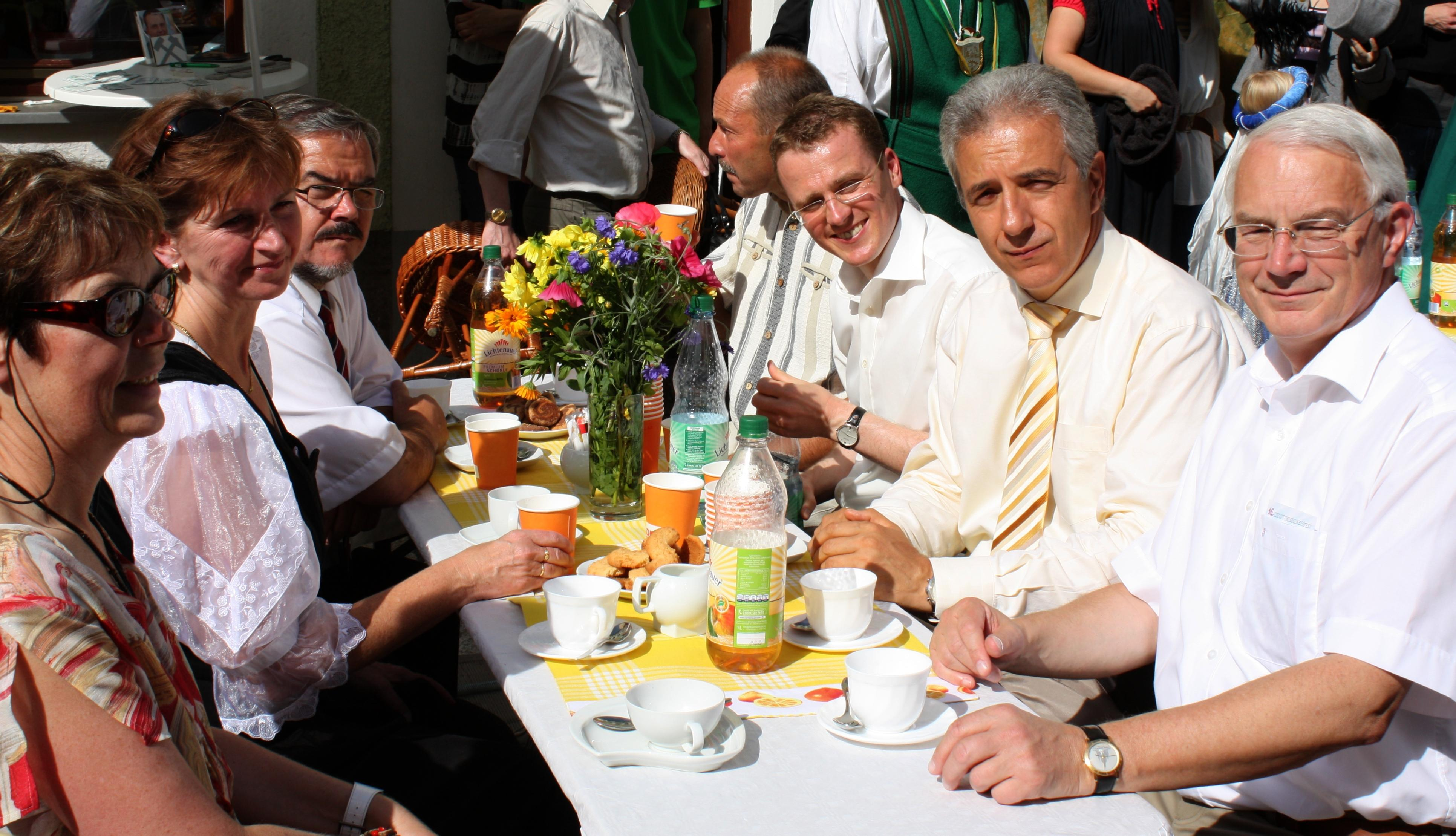 CDU Politicians of Saxony at Altstadt- und Edelweißfest in Schwarzenberg/Erzgeb. in front of office of Alexander Krauß in Obere Schloßstraße.